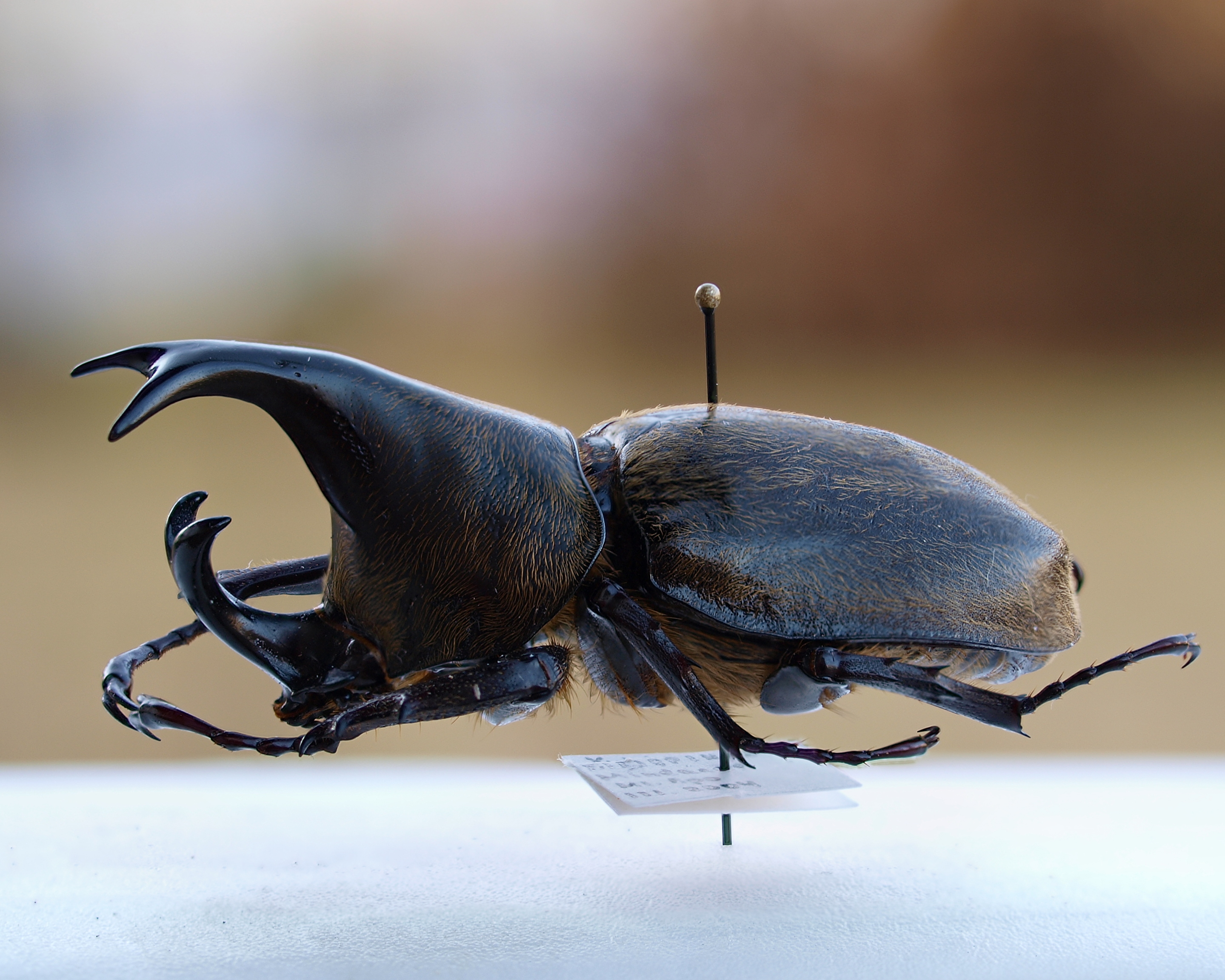 Xylotrupes pubescens, male